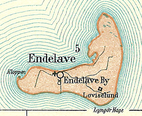 Map of Endelave Skanderborg County in Denmark